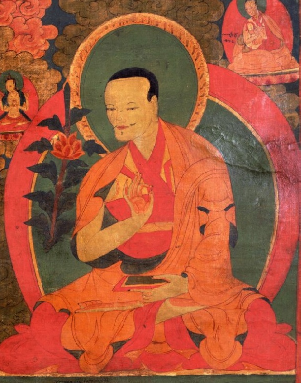 Gorampa Sonam Sengge, b.1429 - d.1489, 6th Ngor Chen